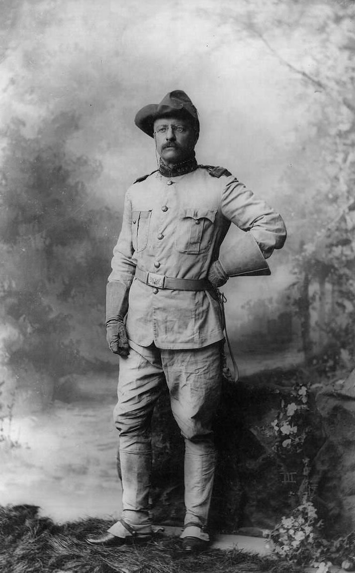 Colonel Theodore Roosevelt, in rough rider uniform, full-length portrait, standing and facing slightly left.